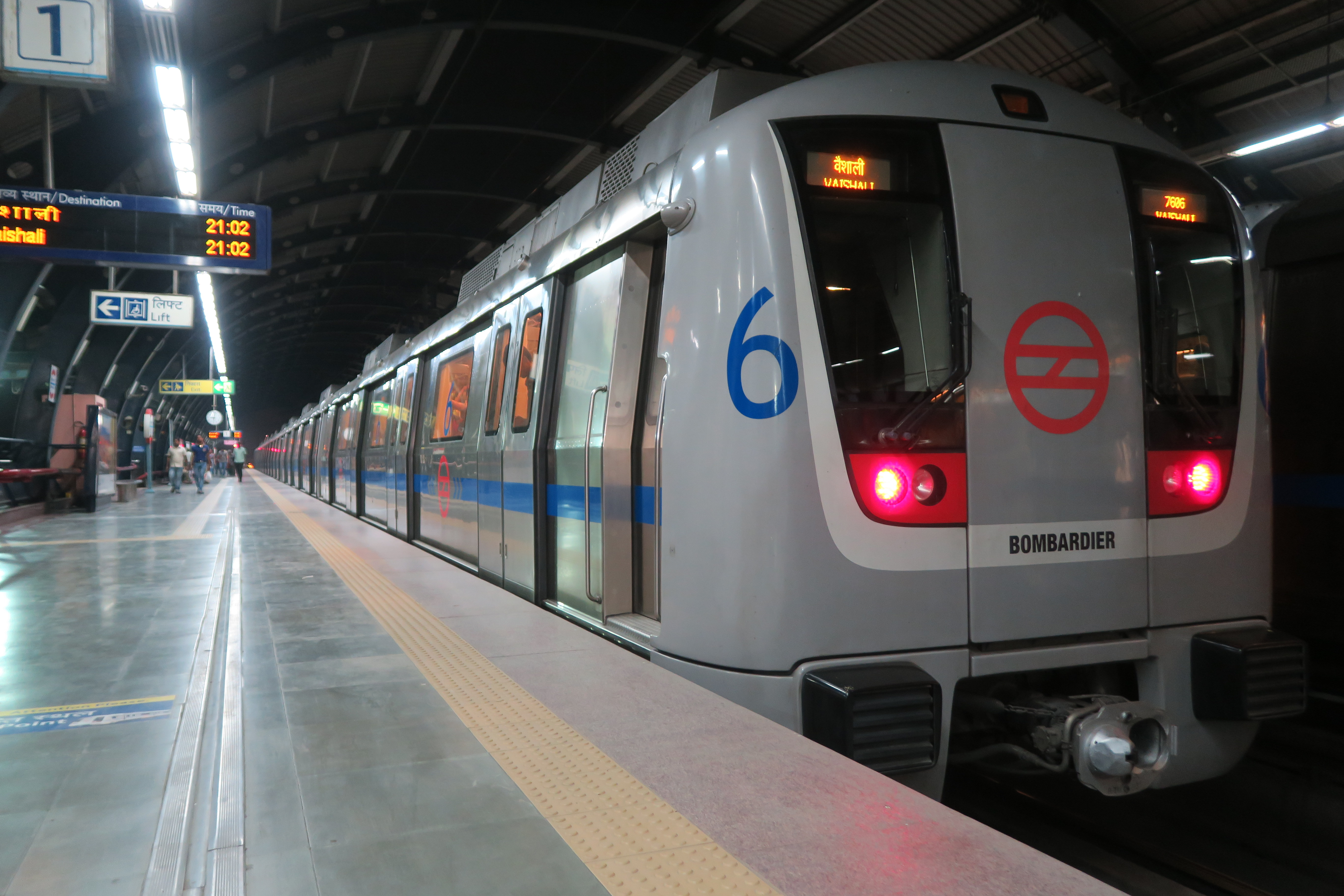 Coaches of Delhi Metro blue line manifuctured by Bombardier.